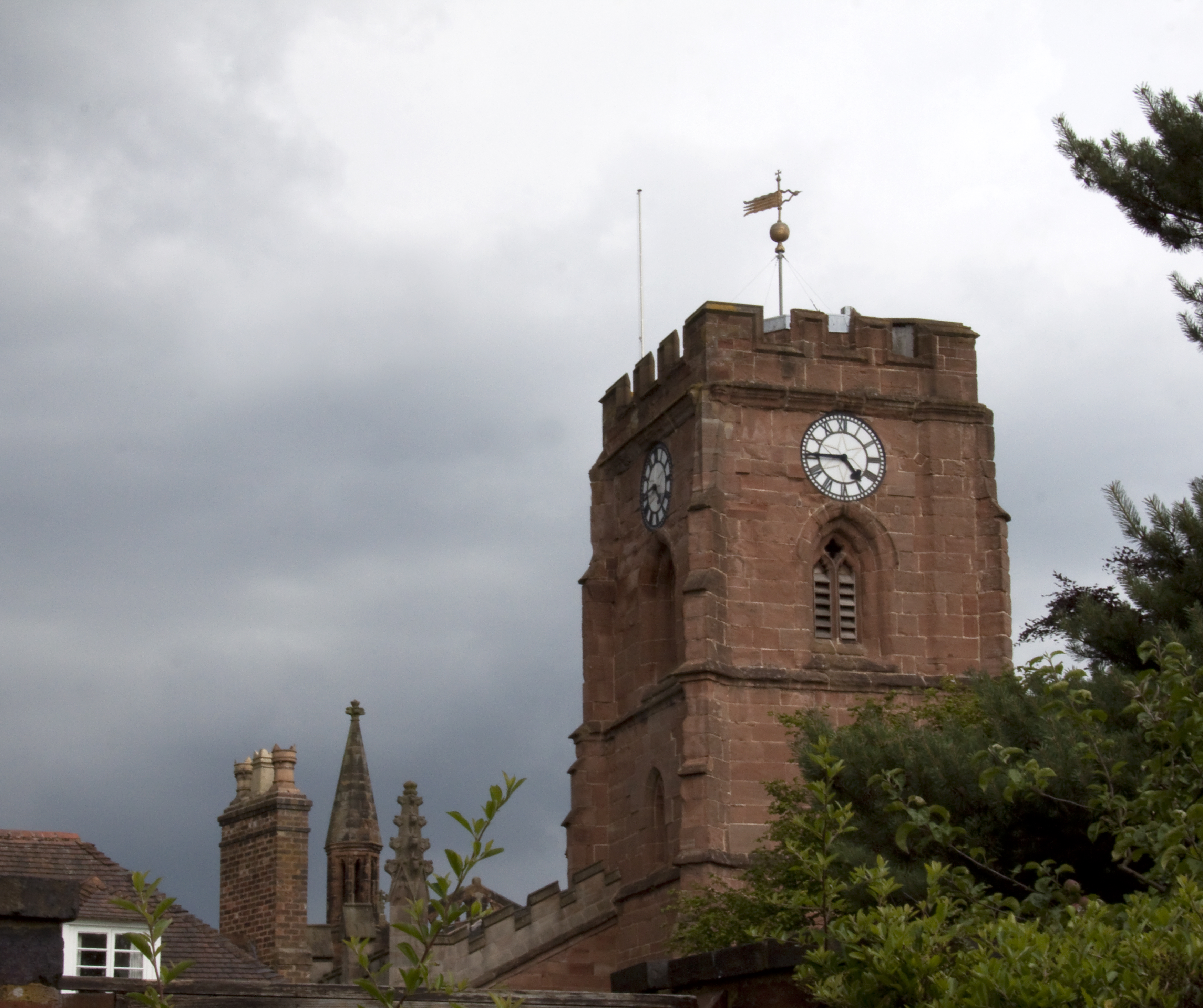 Upper stages of the west tower of St Mary's parish church, Old Swinford, Stourbridge, West Midlands